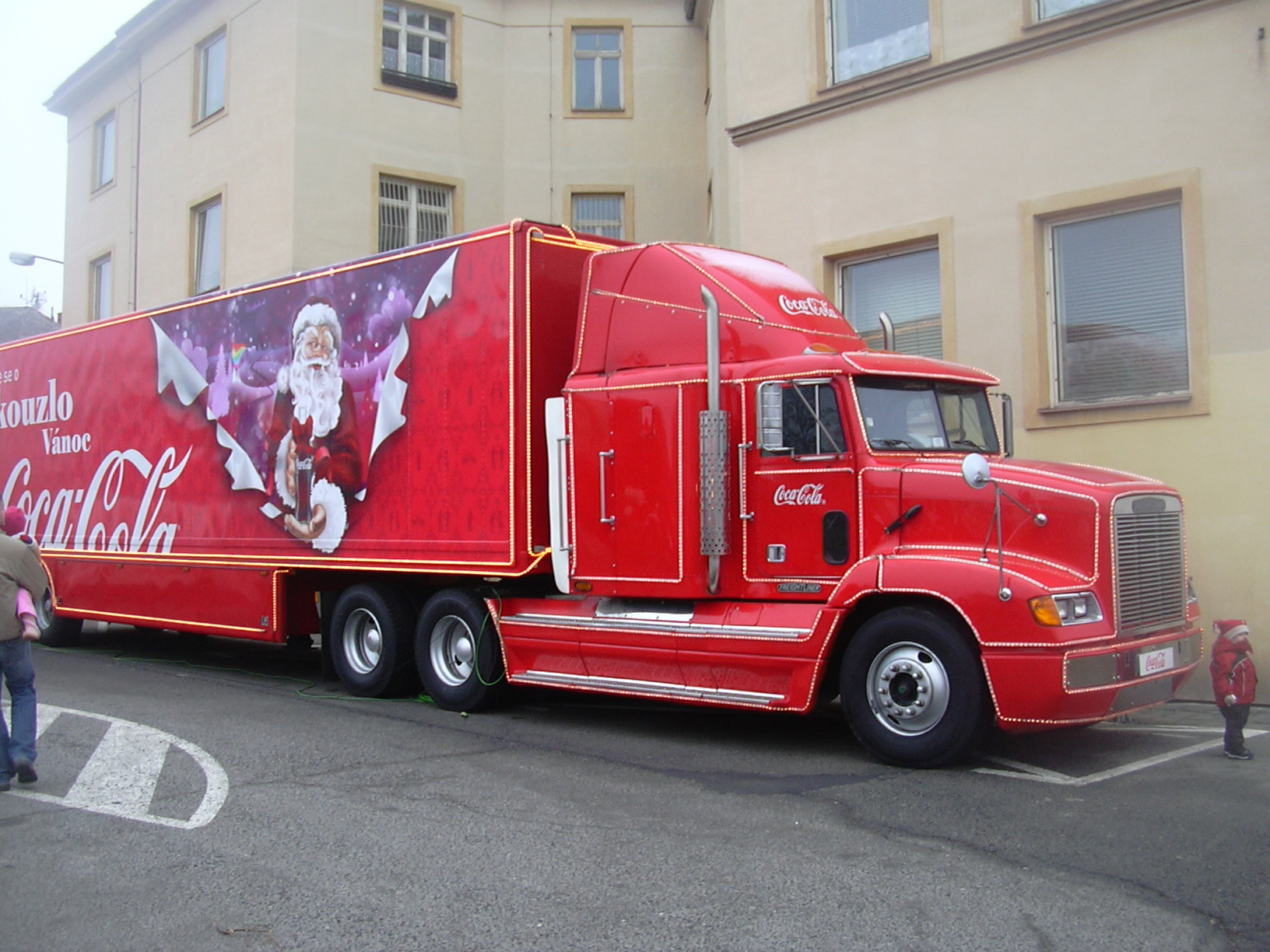 Coca-Cola Christmas truck (Vyškov- Czech republic)